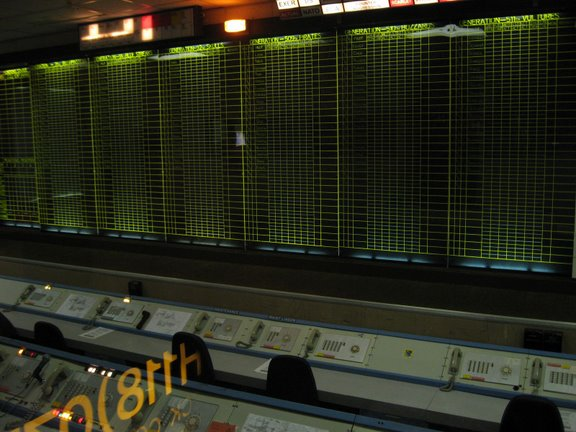 War Operations Room, the former USAF hardened command post at RAF Bentwaters, now part of Bentwaters Cold War Museum